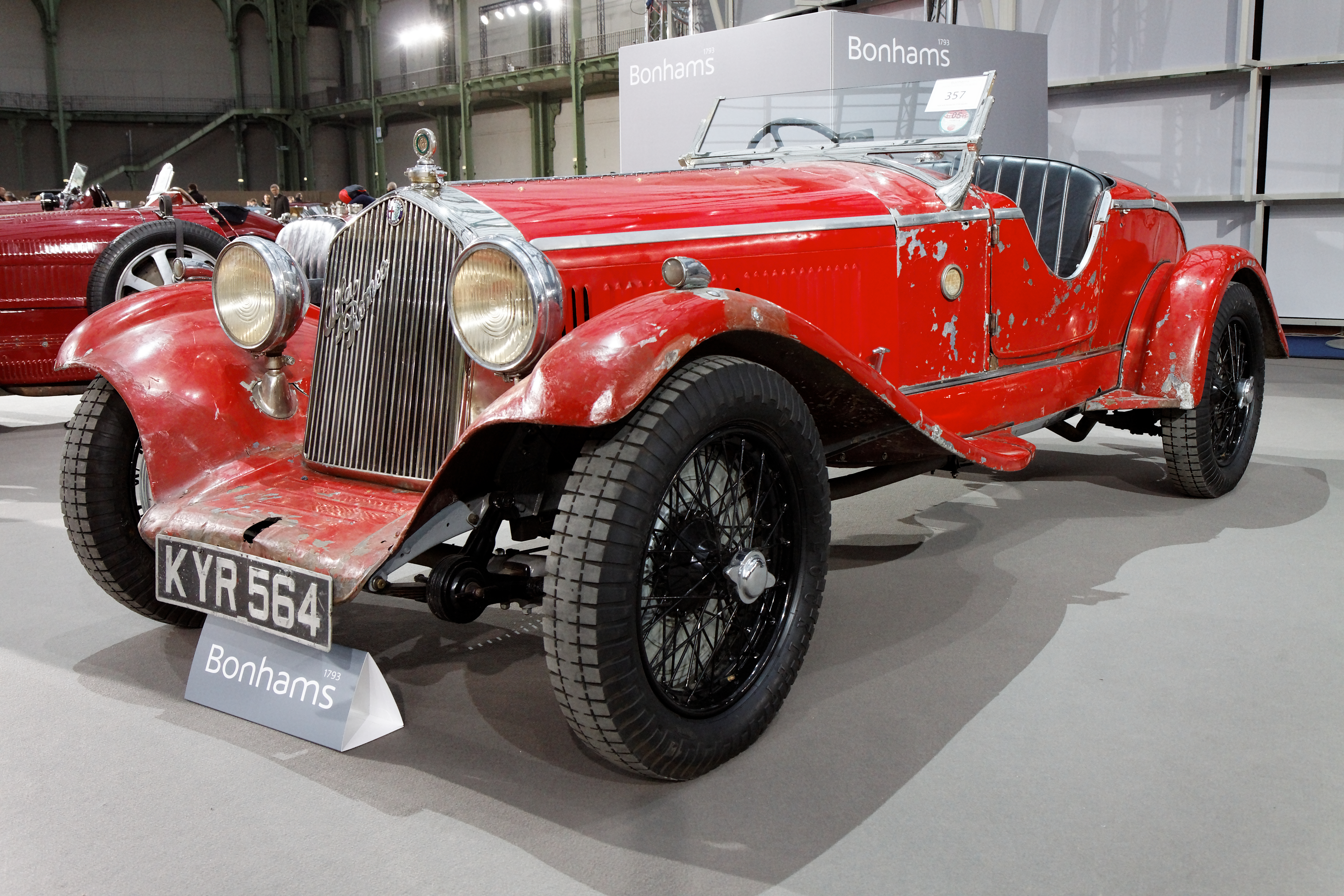 Alfa Romeo Type 6C 1750 Super Sport of 1929, official competition car, with frame (n.0312961) in wood ash. Originally equipped with a DOHC naturally aspirated engine in 1932 was equipped with a supercharger. He competed in various races, with riders like Gabriel Cecchini and Giuseppe Campari.